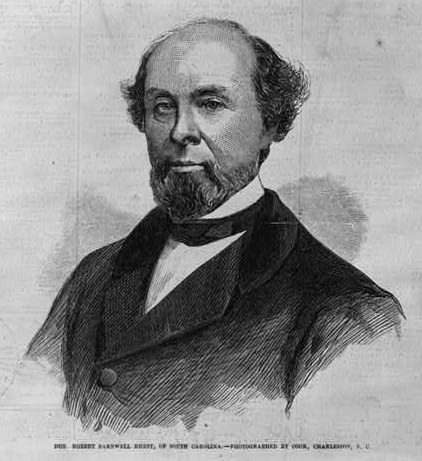 Robert Barnwell Rhett — member of the Confederate House of Representatives from South Carolina. (cropped)